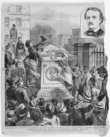 Image source: Image Z24.2069, linked at [1]. Pre-1923. From the Maryland Historical Society web site, [2] [3] Uploaded 02:09, 29 August 2005 by Noitall